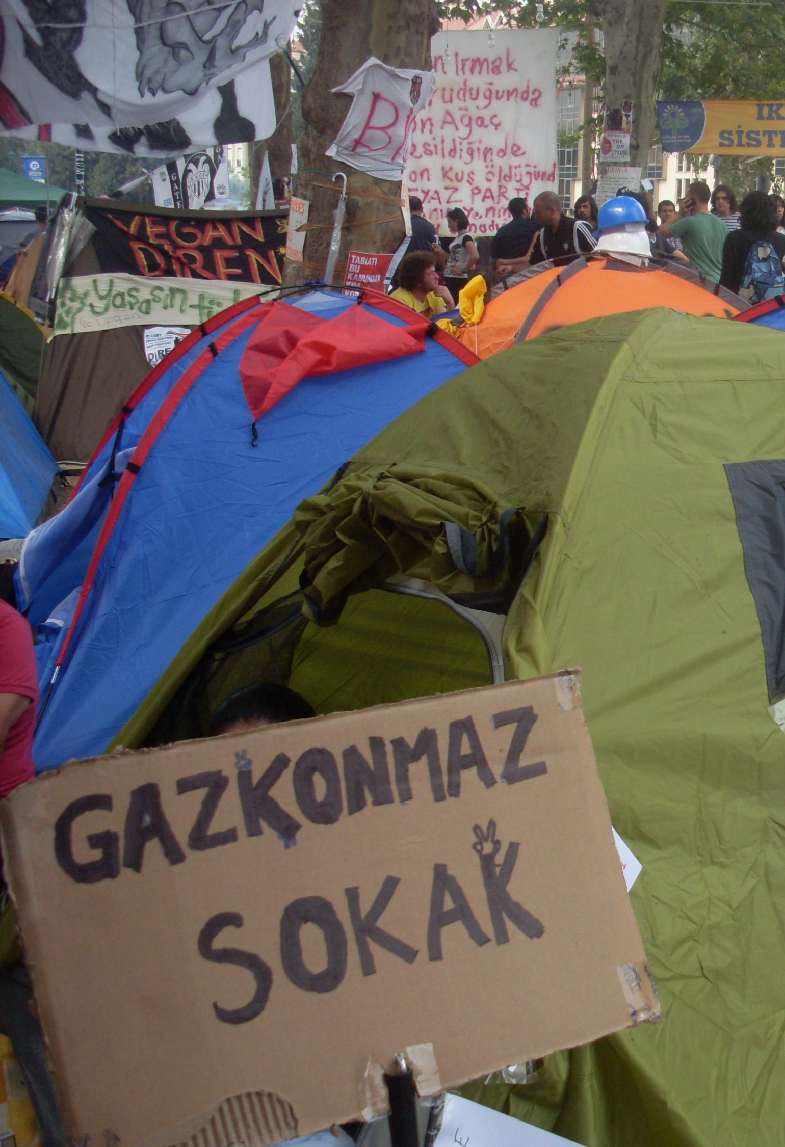 a view from Taksim Gezi Park 7th June 3